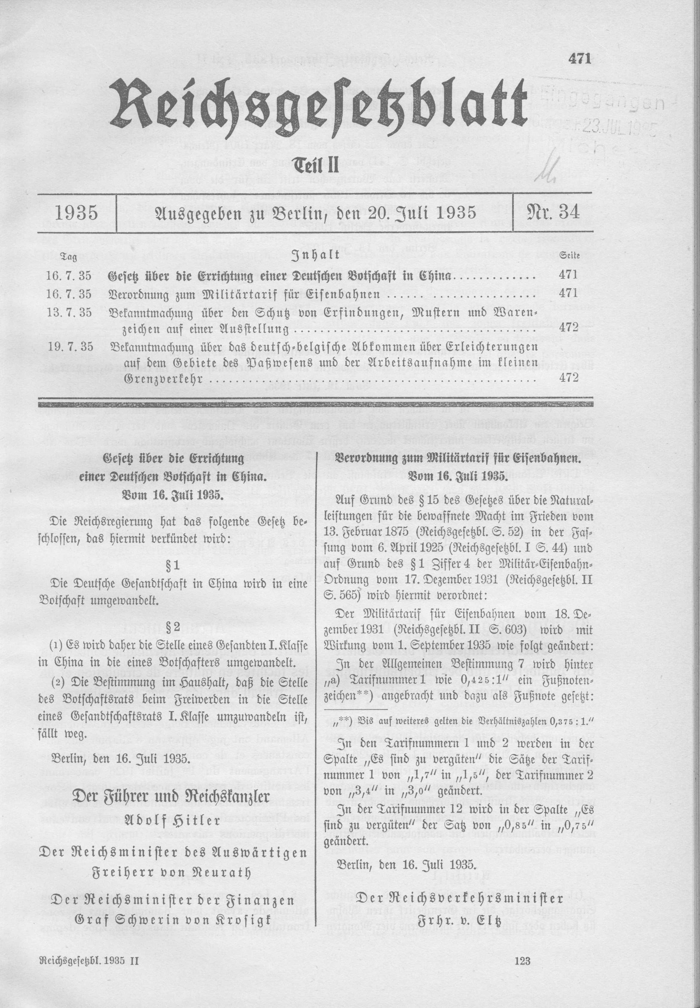 Scan from the Imperial Law Gazette of Germany, 1935, part 2